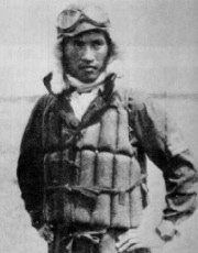 Yukio Seki as a Lieutenant (Chui) of the Japanese Naval Air Force wearing life preserver. 最初の特攻隊員・関 行男大尉